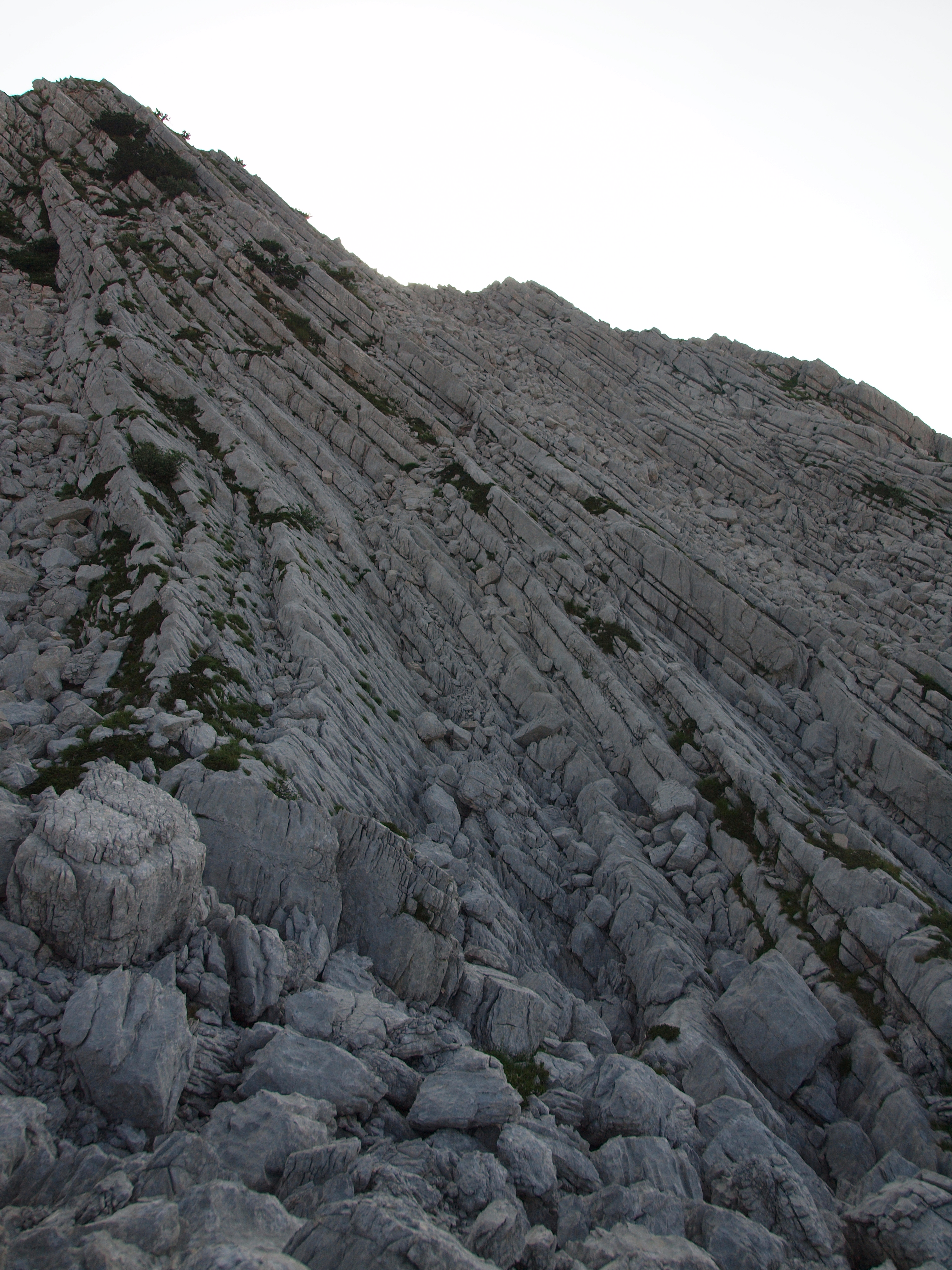 Cretaceous limestones Vucji zub Mt Orjen leg. P.Cikovac